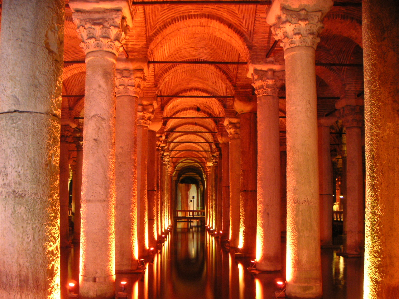 basilica cistern, istanbul turkey